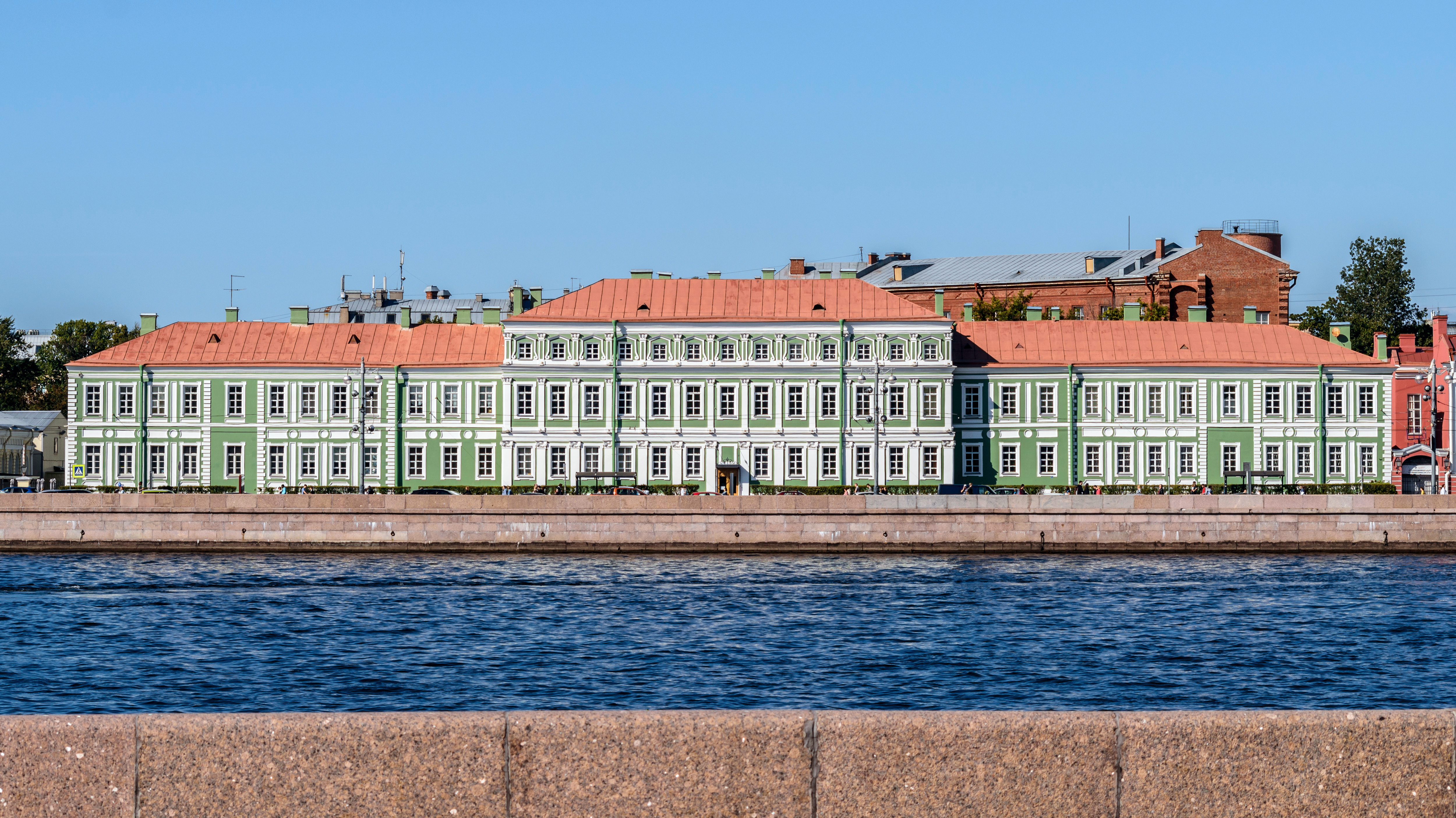 Palace of Emperor Peter the Second in Saint Petersburg